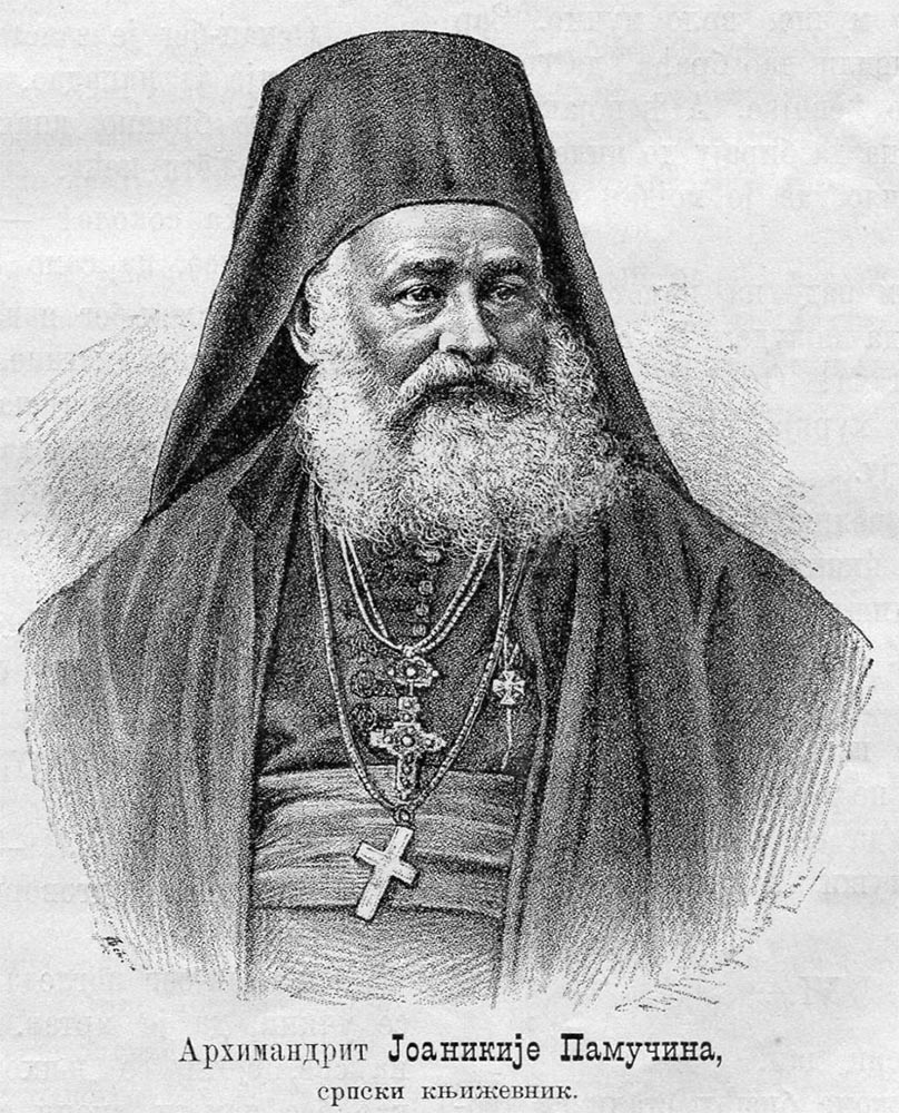 Archimandrite and writer Joanikije Pamučina. Portrait from Zora 1, page 53.